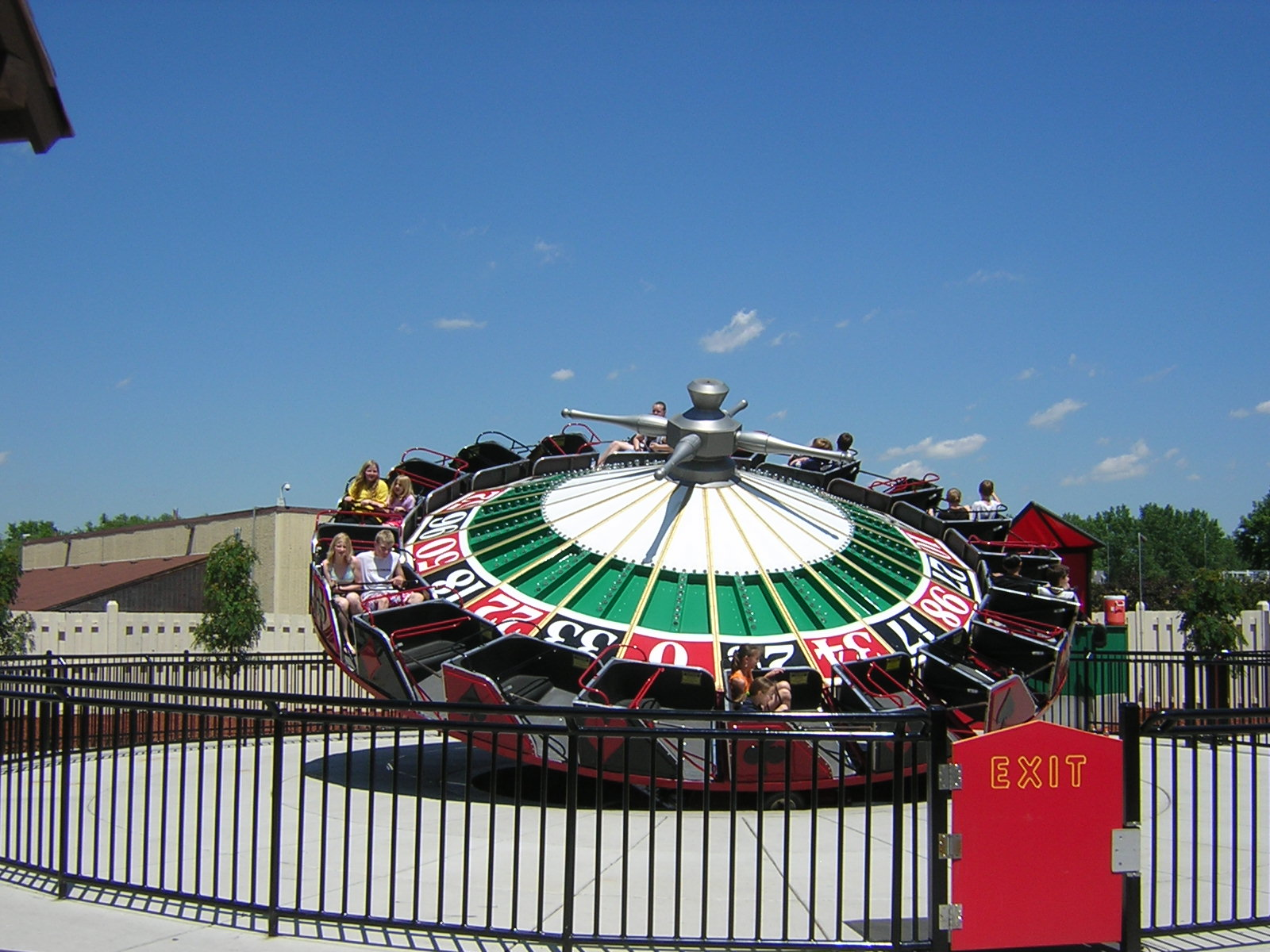 rethemed Trabant at Cedar Fair's Valleyfair! amusement park in Shakopee, Minnesota, USA